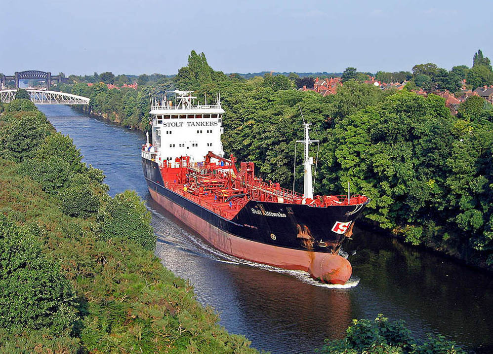 Stolt Kittiwake between Knutsford road swing bridge & the cantilever bridge, Warrington on the way outward from Carrington 21.06.05